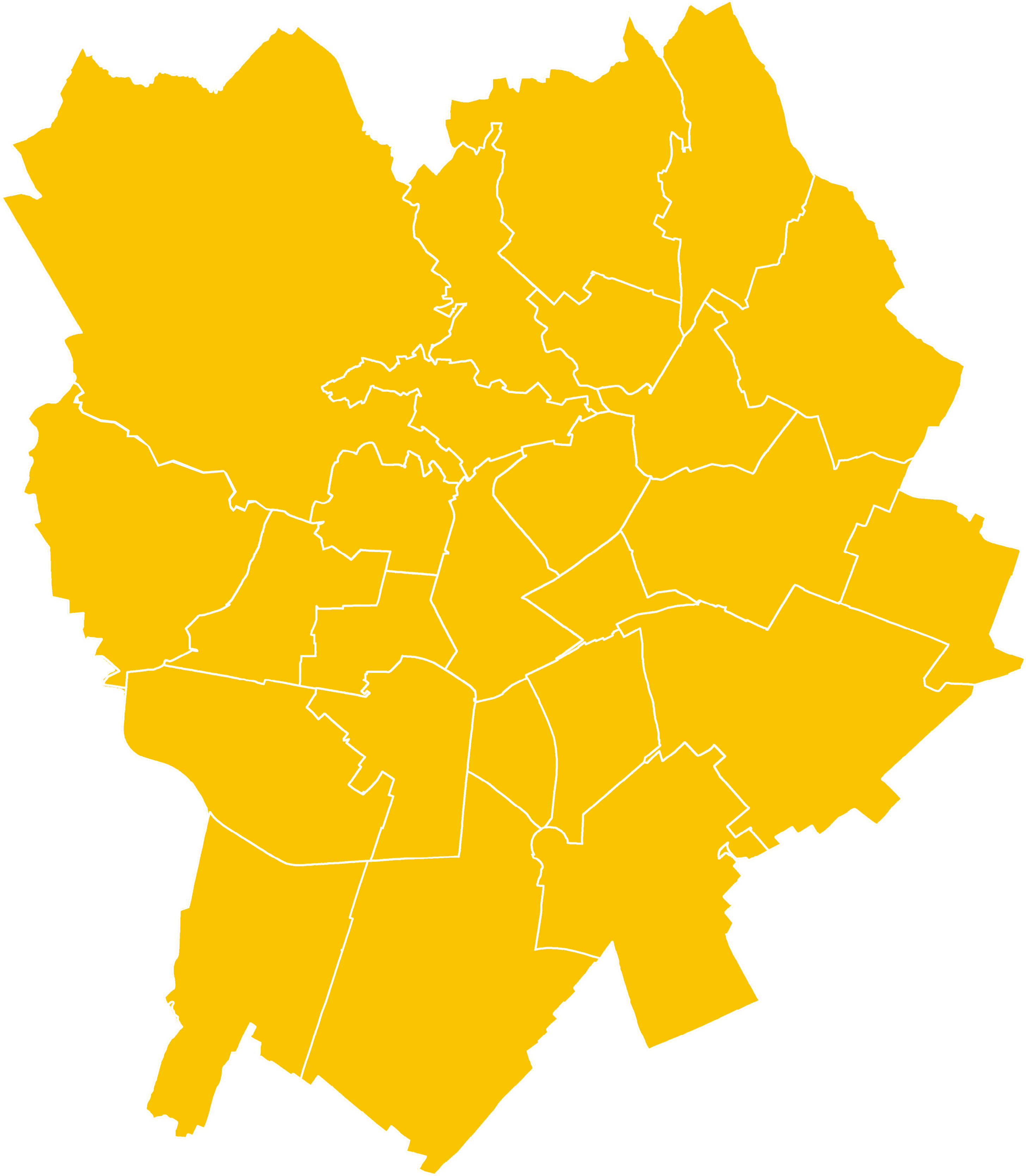 A neighbourhood of Bergamo